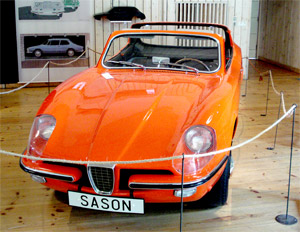 SAAB Catherina is a prototype vehicle made in 1964. It was designed by Sixten Sason and built at Aktiebolaget Svenska Järnvägsverkstäderna (ASJ) in Katrineholm, Sweden (hence its name) for SAAB.